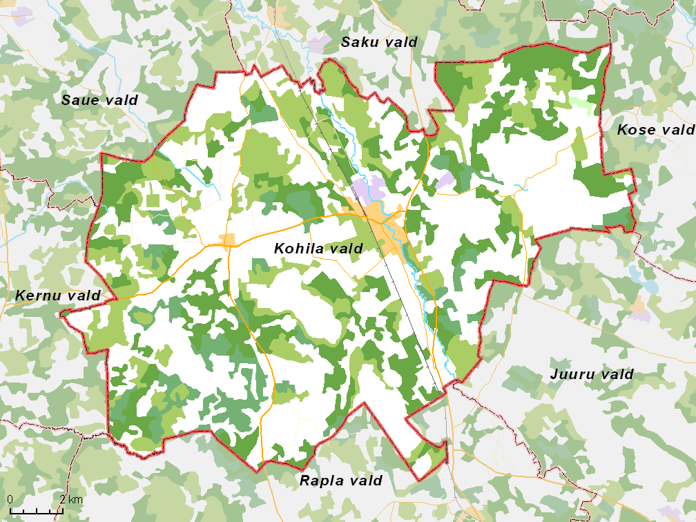 Map of municipality in Estonia